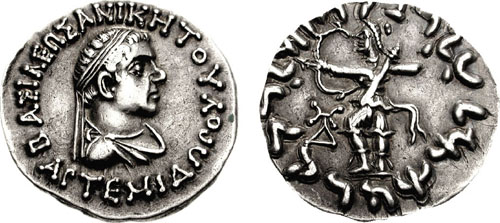 Coin of the Indian-Scythian king Artemidoros